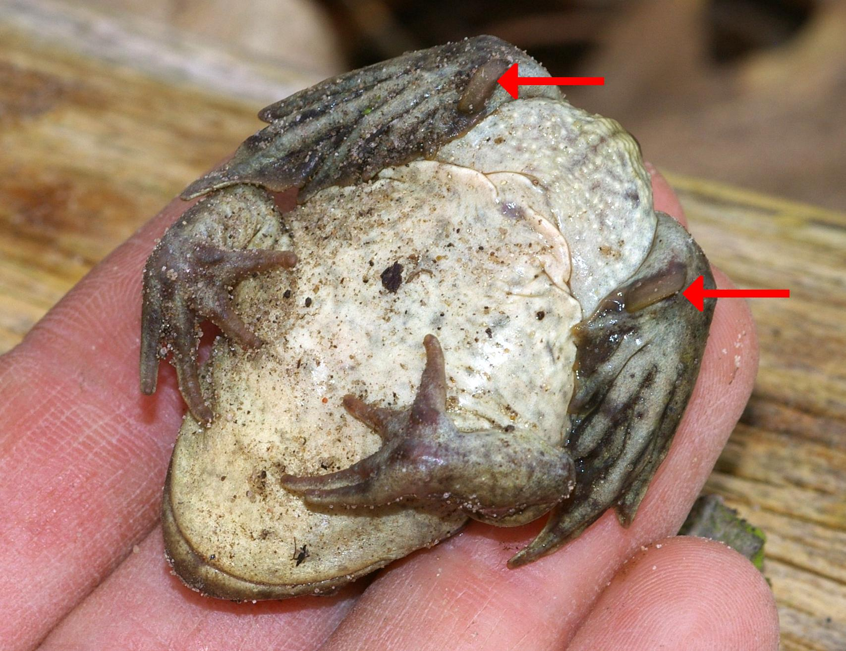 The Common Spadefoot Toad, Pelobates fuscus; here a view to the ventral side of a male specimen. Notice the brown "spades" at the first toe of each backfeet.